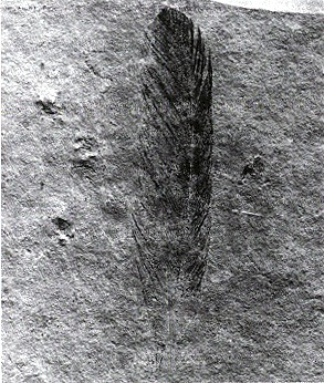 In von Meyer's (1862) paper the single Archaeopteryx feather is shown on plate 8, fig. 3.